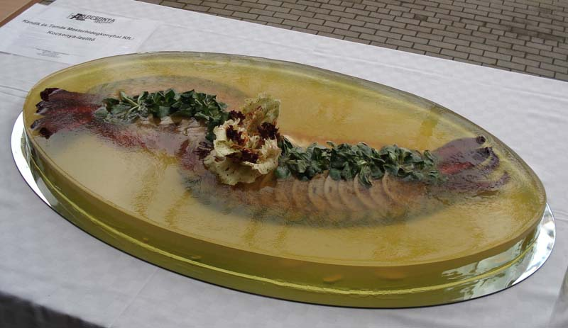 Jelly festival, Miskolc, Hungary, 2008